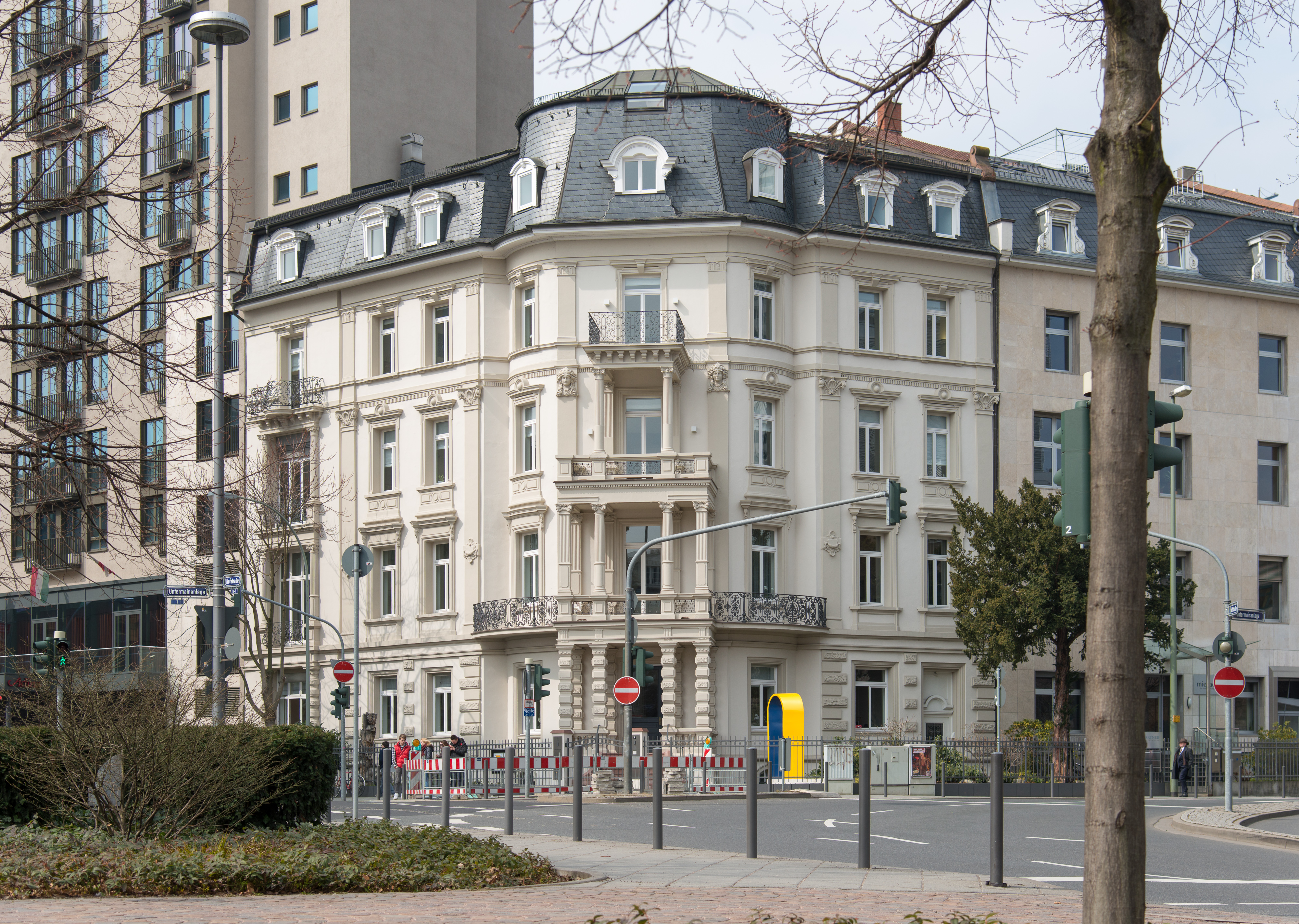 Frankfurt am Main, Untermainanlage 5 (Wilhelm-Leuschner-Straße 2). Cultural monument of the city from 1874.